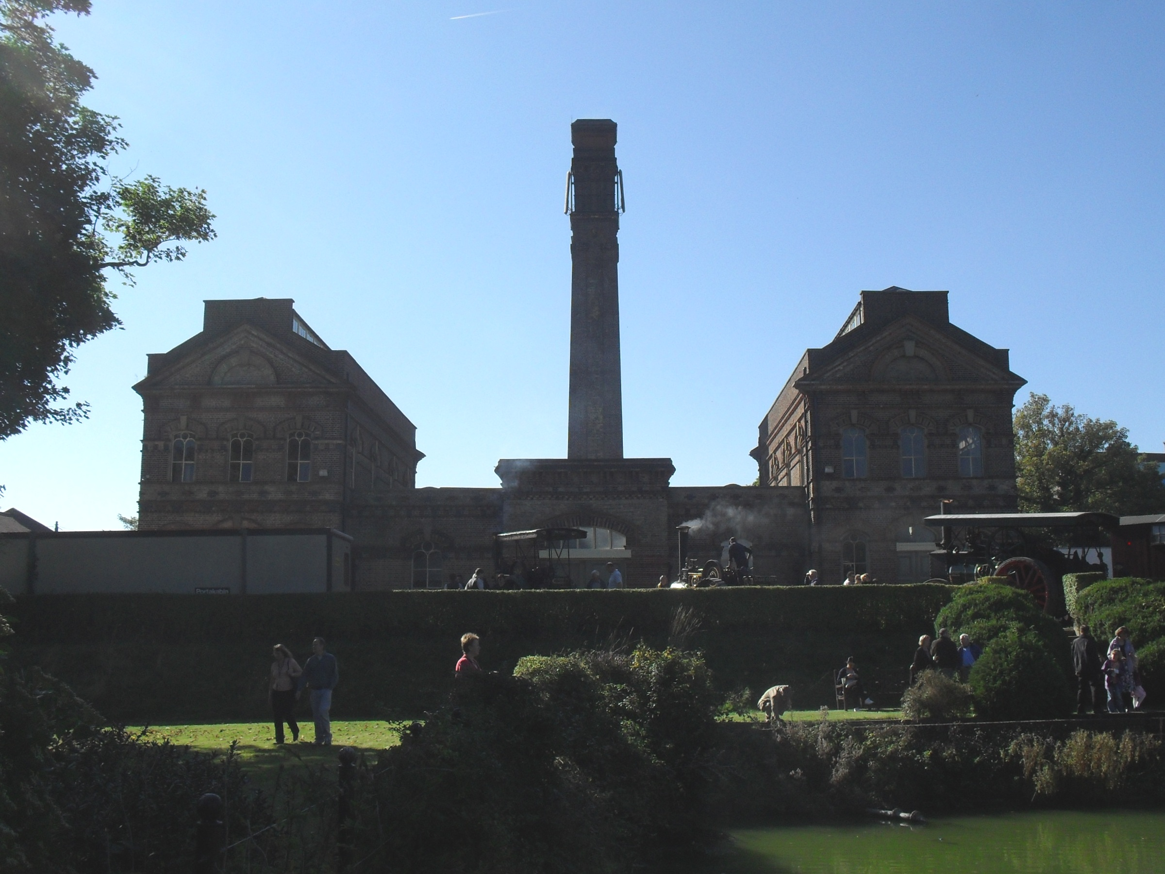 Former Boiler House and Engine Room at the British Engineerium, The Droveway, West Blatchington, Hove, City of Brighton and Hove, England. The main part of the former Goldstone Pumping Station, a waterworks built in 1866. Now a museum; pictured here (from the rear) on a rare open day during a period of long-term renovation. The cooling pond is to the right of the picture. Listed at Grade II* by English Heritage (IoE Code 365677)